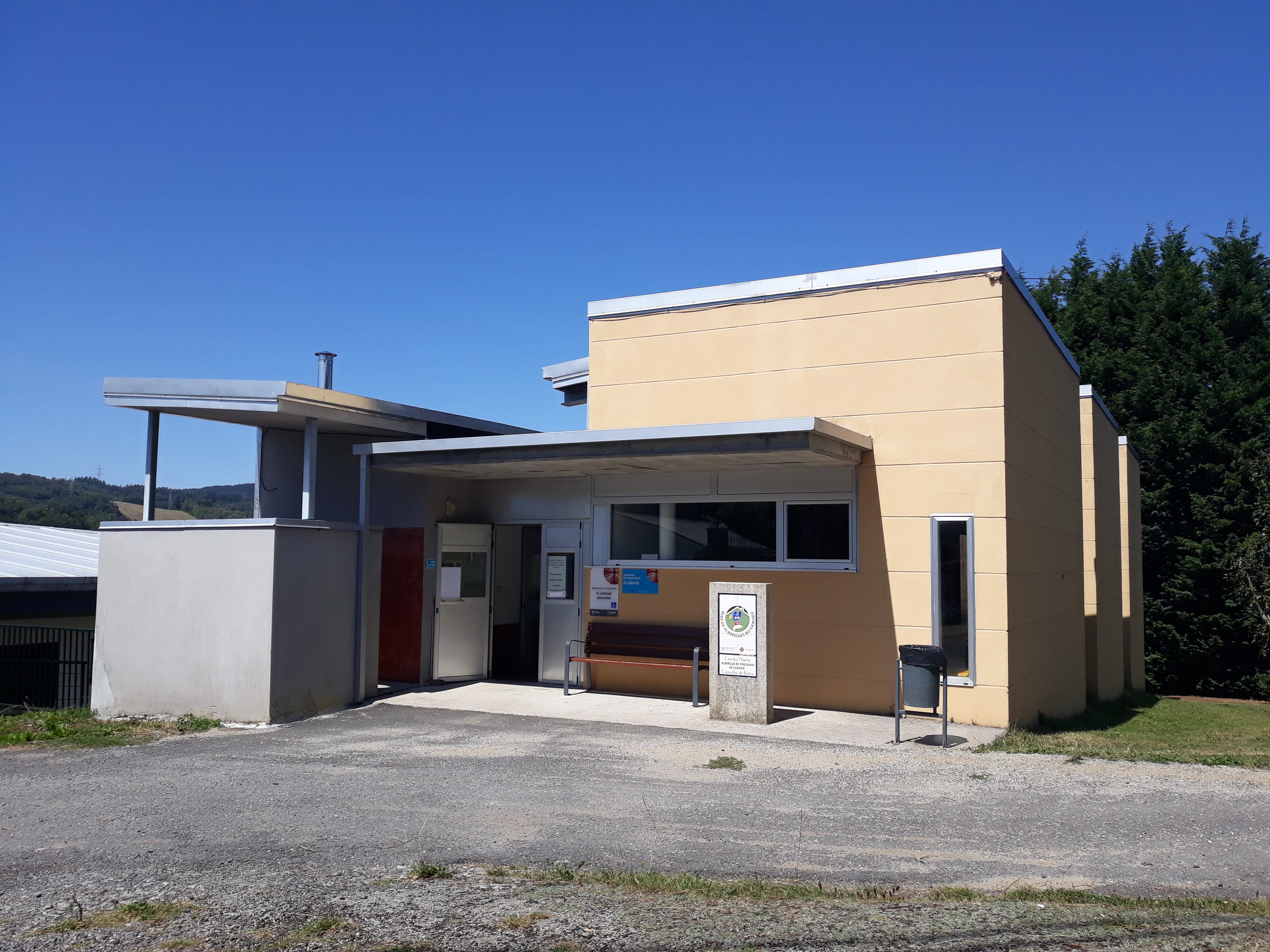 Pilgrims hostel on the Primitive Way of Saint James in O Cádavo, Lugo province, Galicia, Spain.